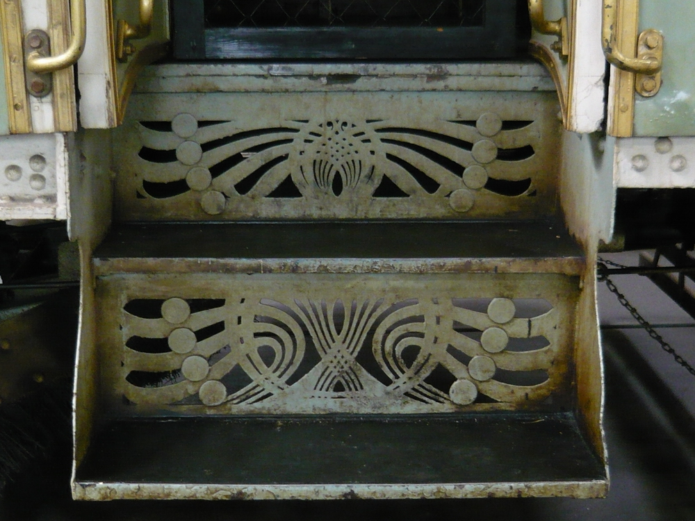 Tram No 200 (1900) in Střešovice tram depot and transport museum, Prague, detail